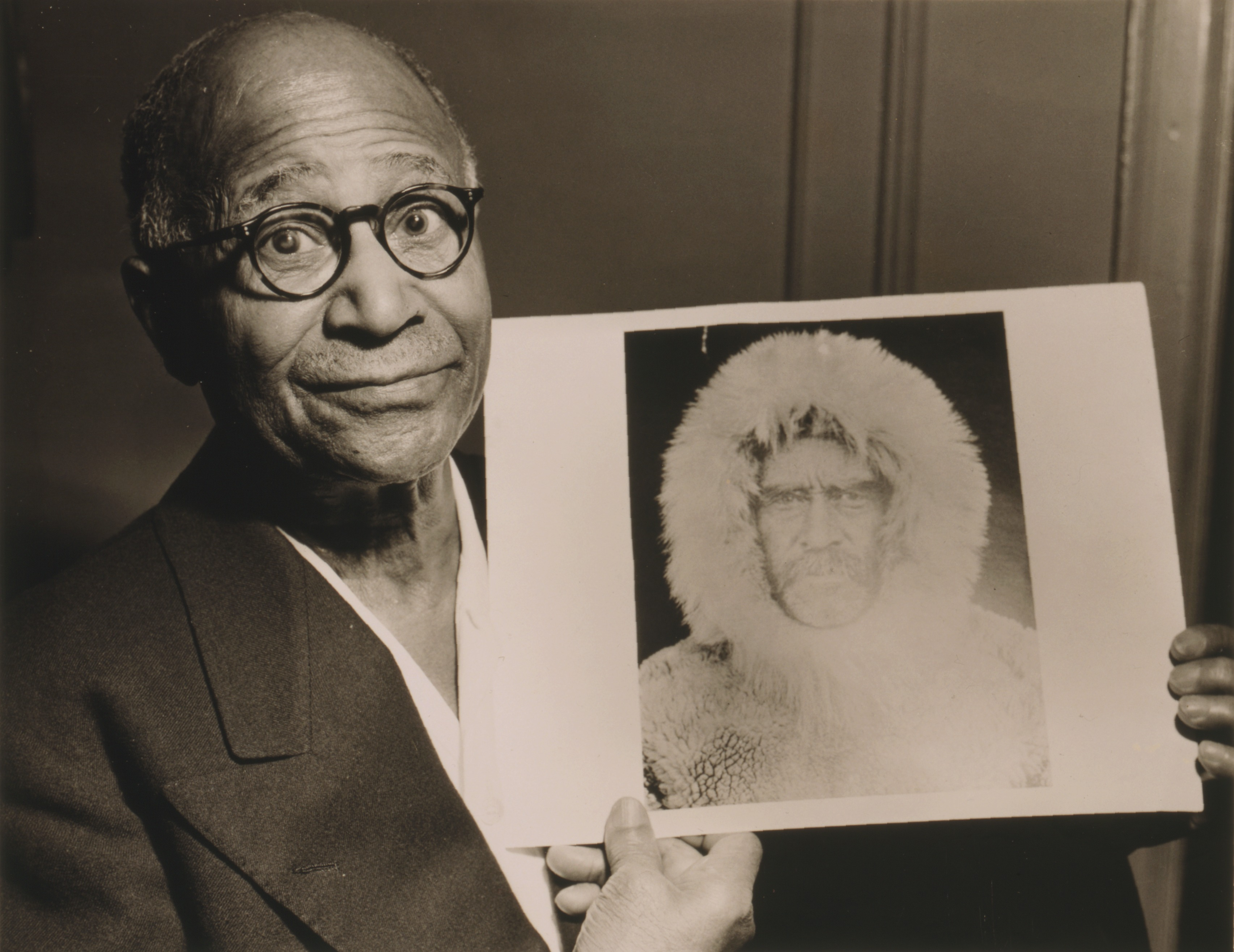 Matthew Henson, head-and-shoulders portrait, facing front, holding a portrait of Robert E. Peary taken during an expedition to the North Pole / World-Telegram photo by Roger Higgins.